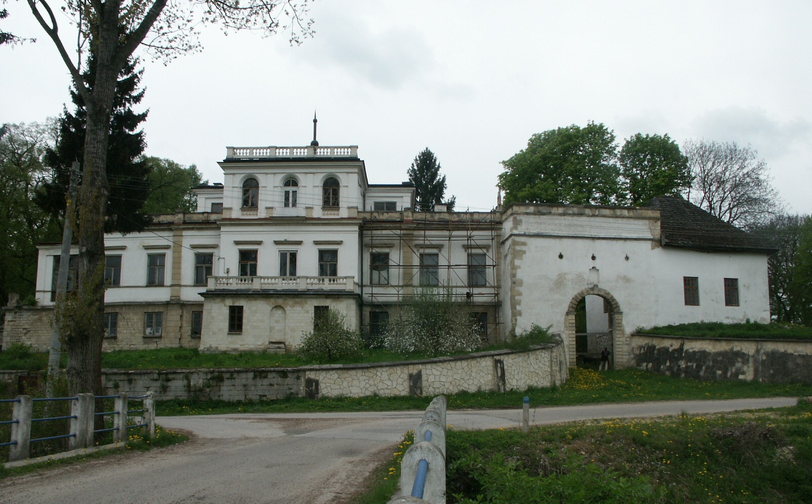 Palace in Sancygniów, Poland, of the 19th century